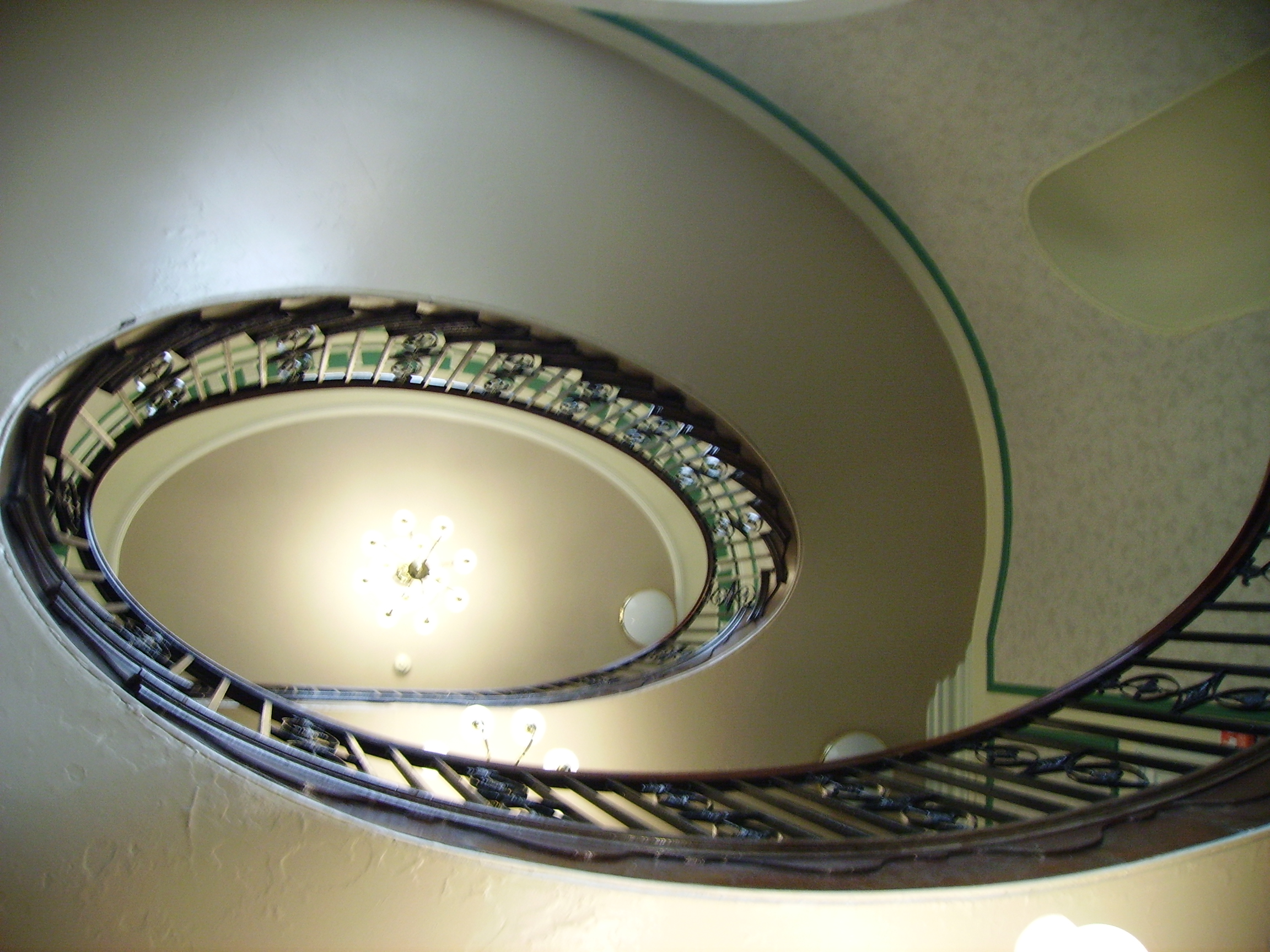 Didsbury School of Education - Elliptical staircase